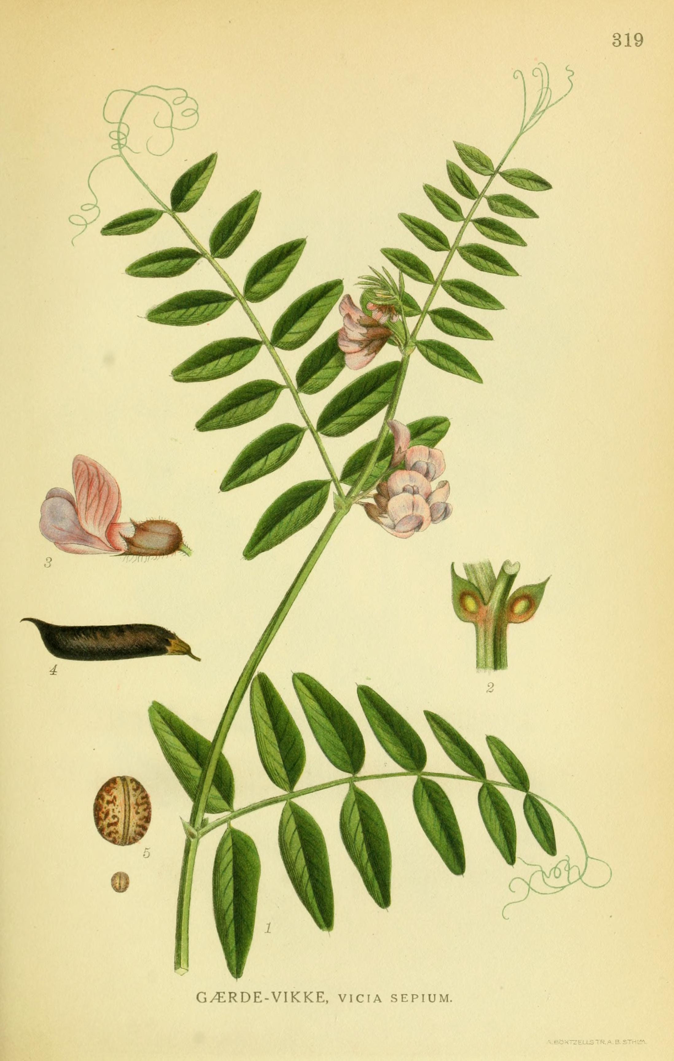 Title: Billeder af nordens flora Year: 1917 (1910s) Authors: Mentz, August, 1867-1944; Ostenfeld, C. H. (Carl Hansen), 1873-1931 Subjects: Plants; Plants; Plants Publisher: København, G. E. C. Gad's forlag Text Appearing Before Image: 319 Text Appearing After Image: GÆRDE-VIKKE, viciA sepium. .-BbnrzejLLS th. a. a s,Tr--^^.